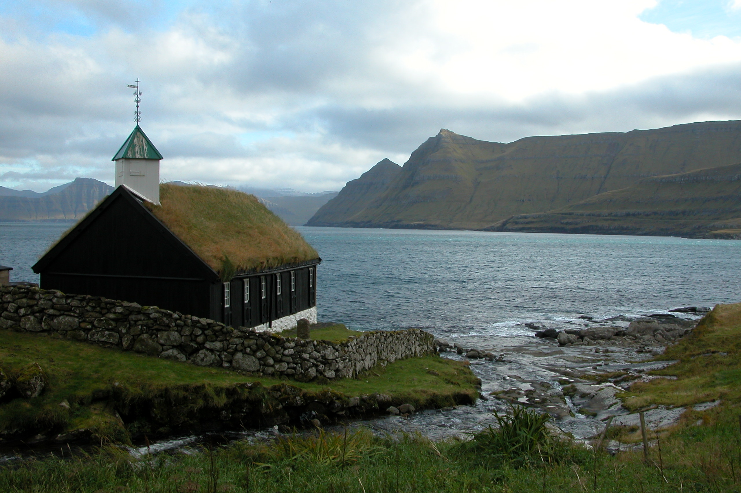 Church of Funningur in Eysturoy, Faroe Islands.